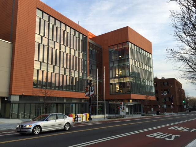 Howard University's new research facility.